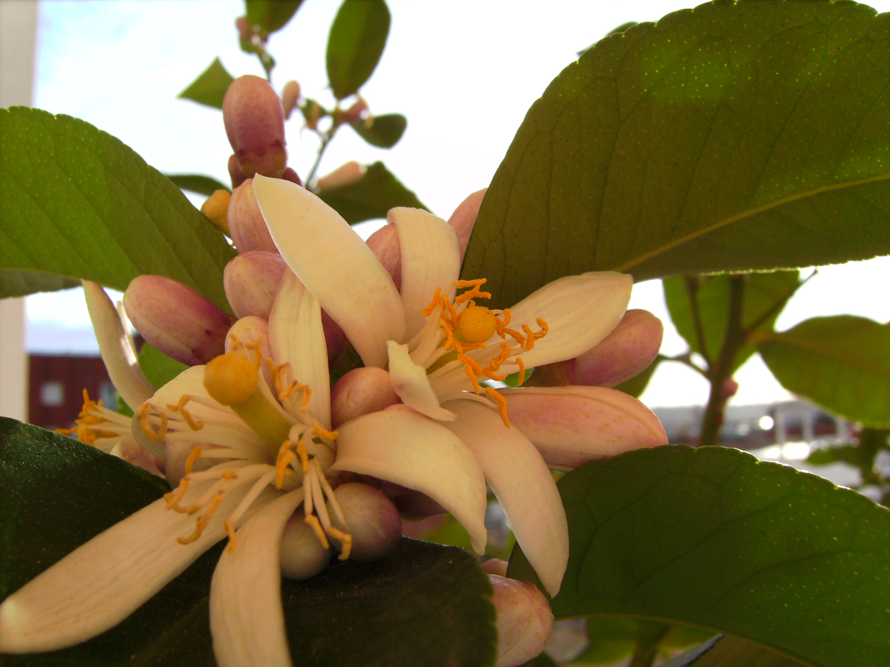 Lemon's flowers in Barcelona